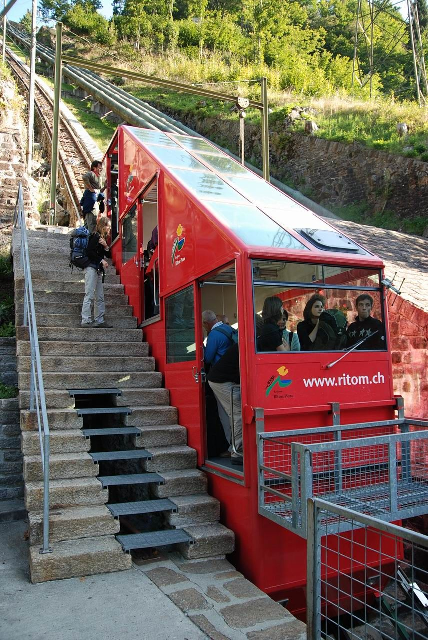 The car of the Ritom funicular, in the Swiss canton of Ticino. For more information, please see the Wikipedia article Ritom funicular.